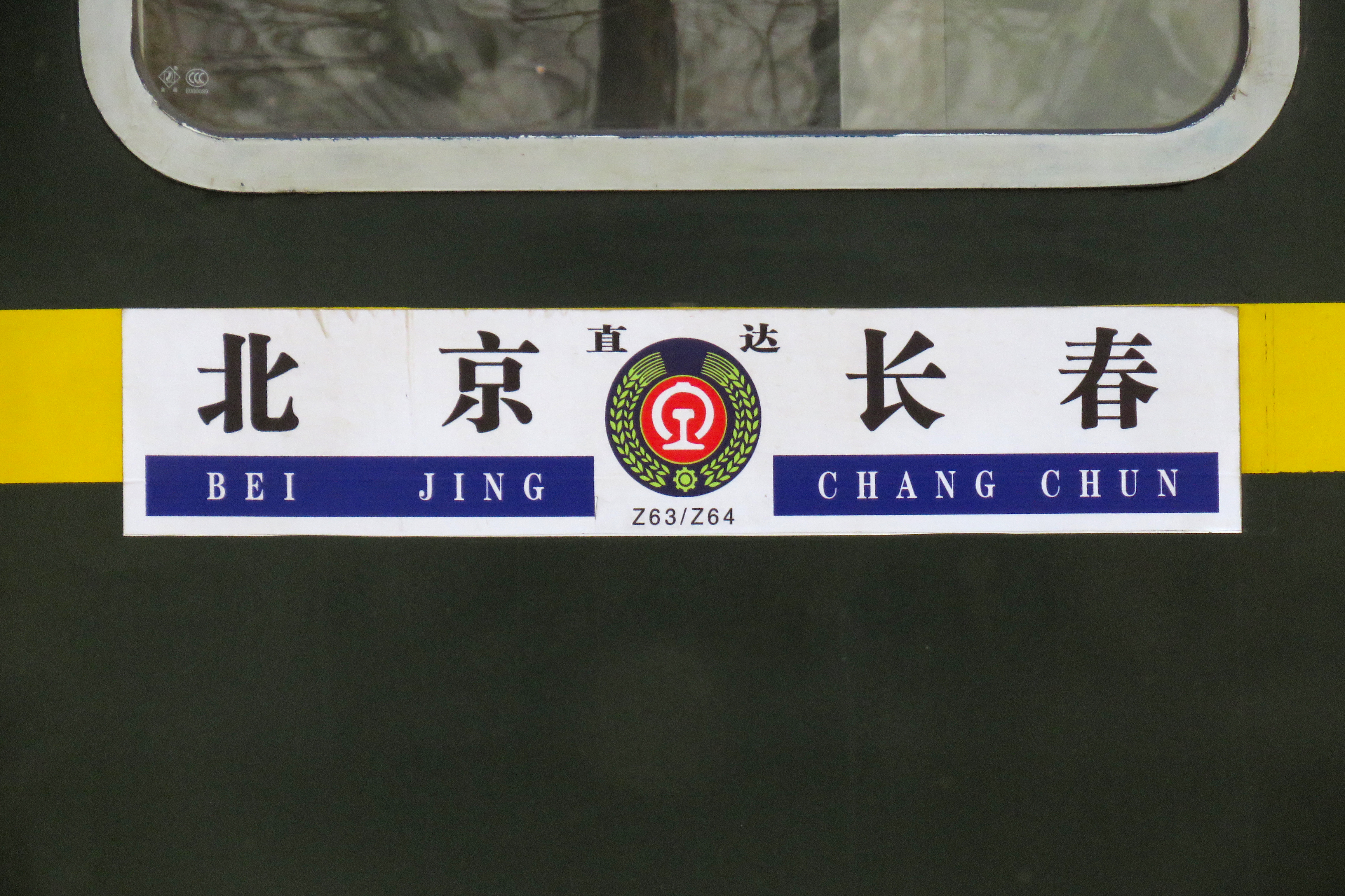 Taken at Wangjing Railway Station, which is actually in Shangezhuang.